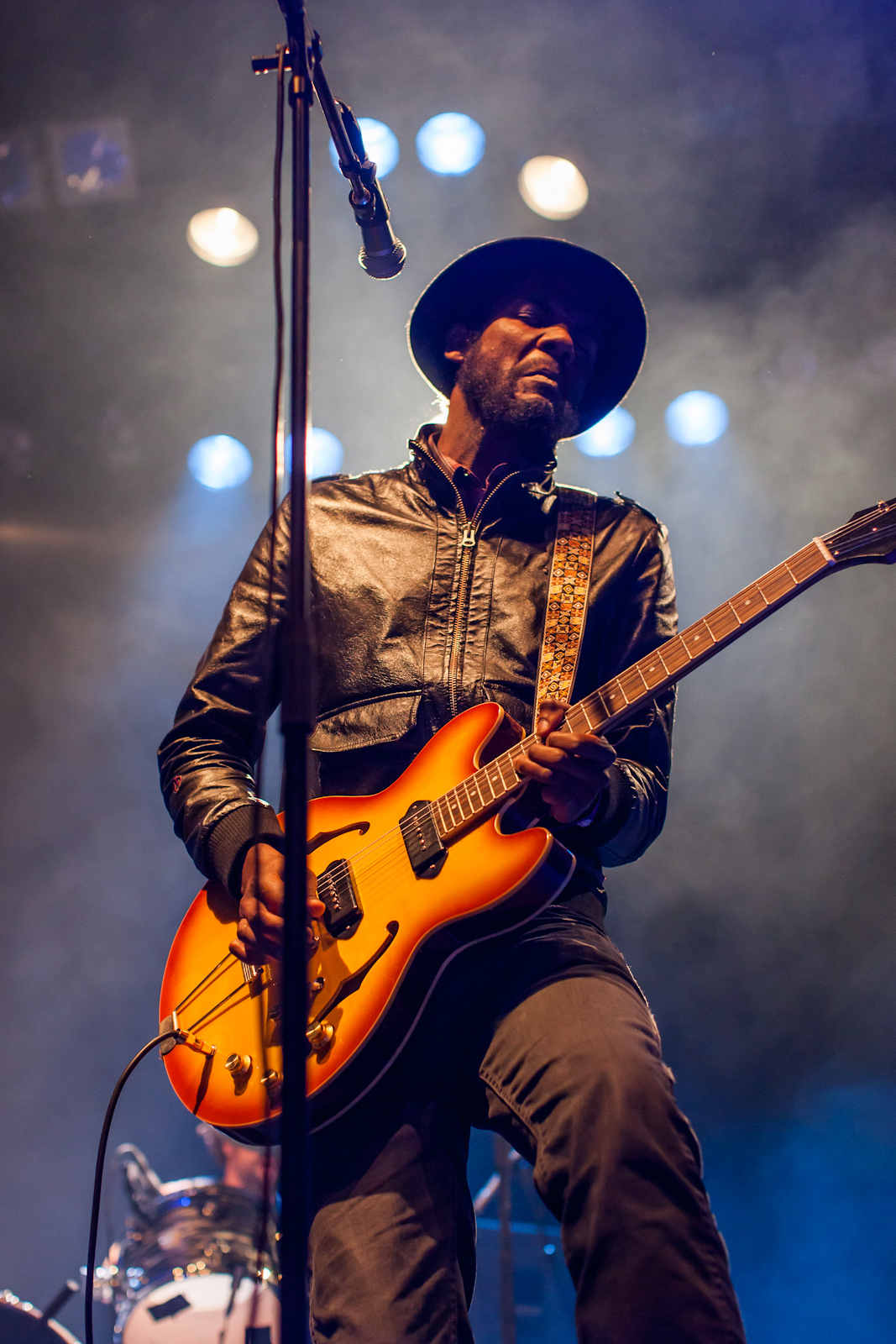 Gary Clark Jr live at Supersonic 2012